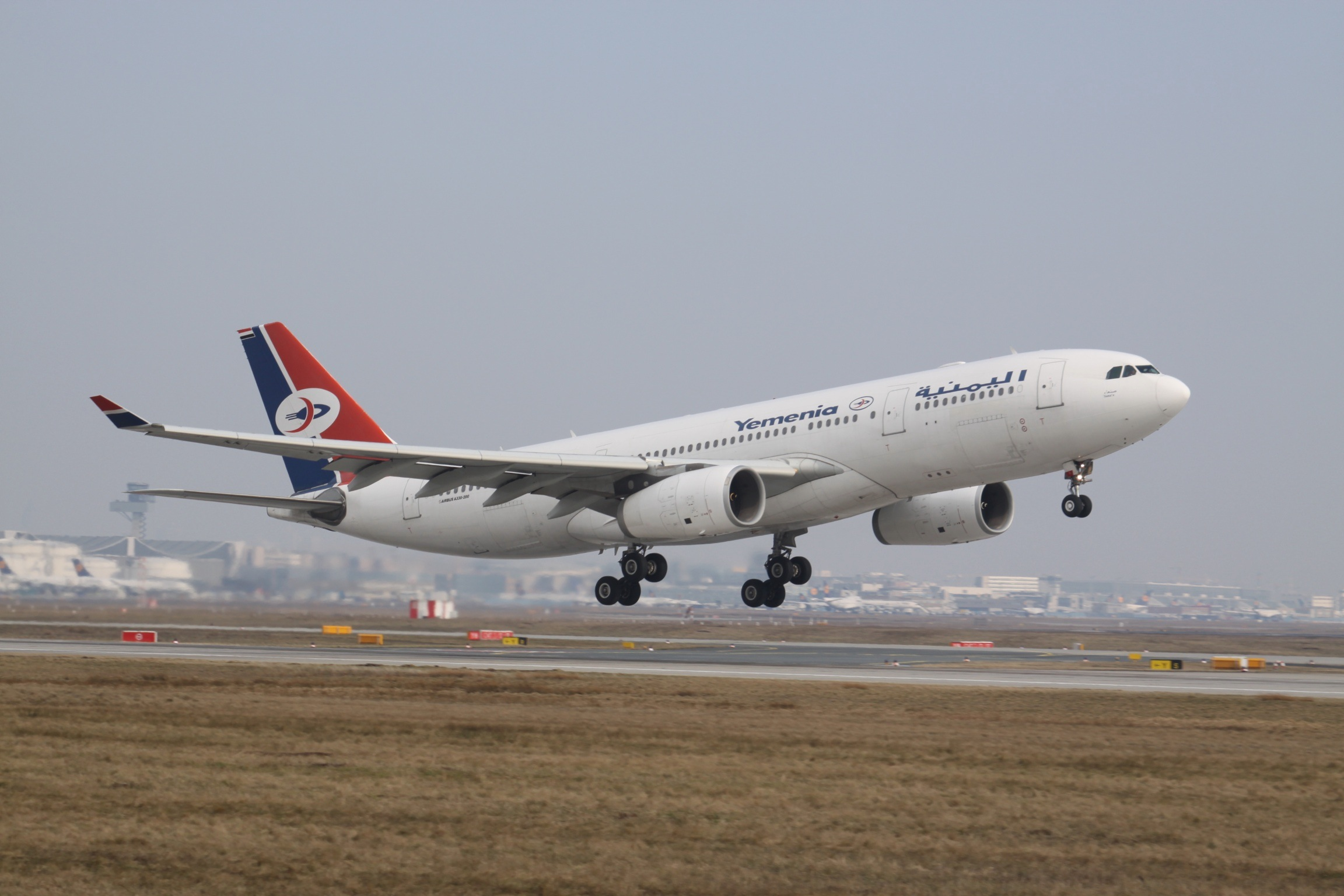 At Frankfurt Main